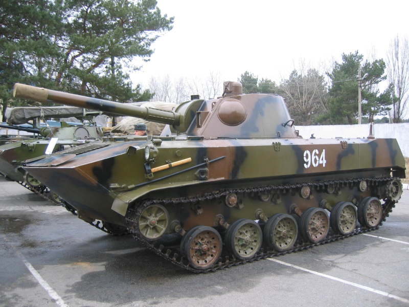 2S9 nona